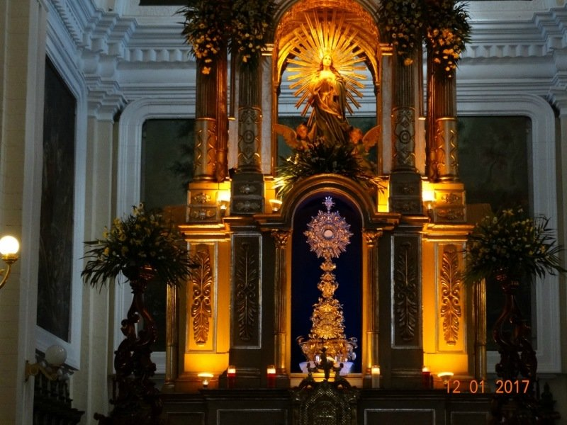 Altar in the cathedral of Leon (Nicaragua)